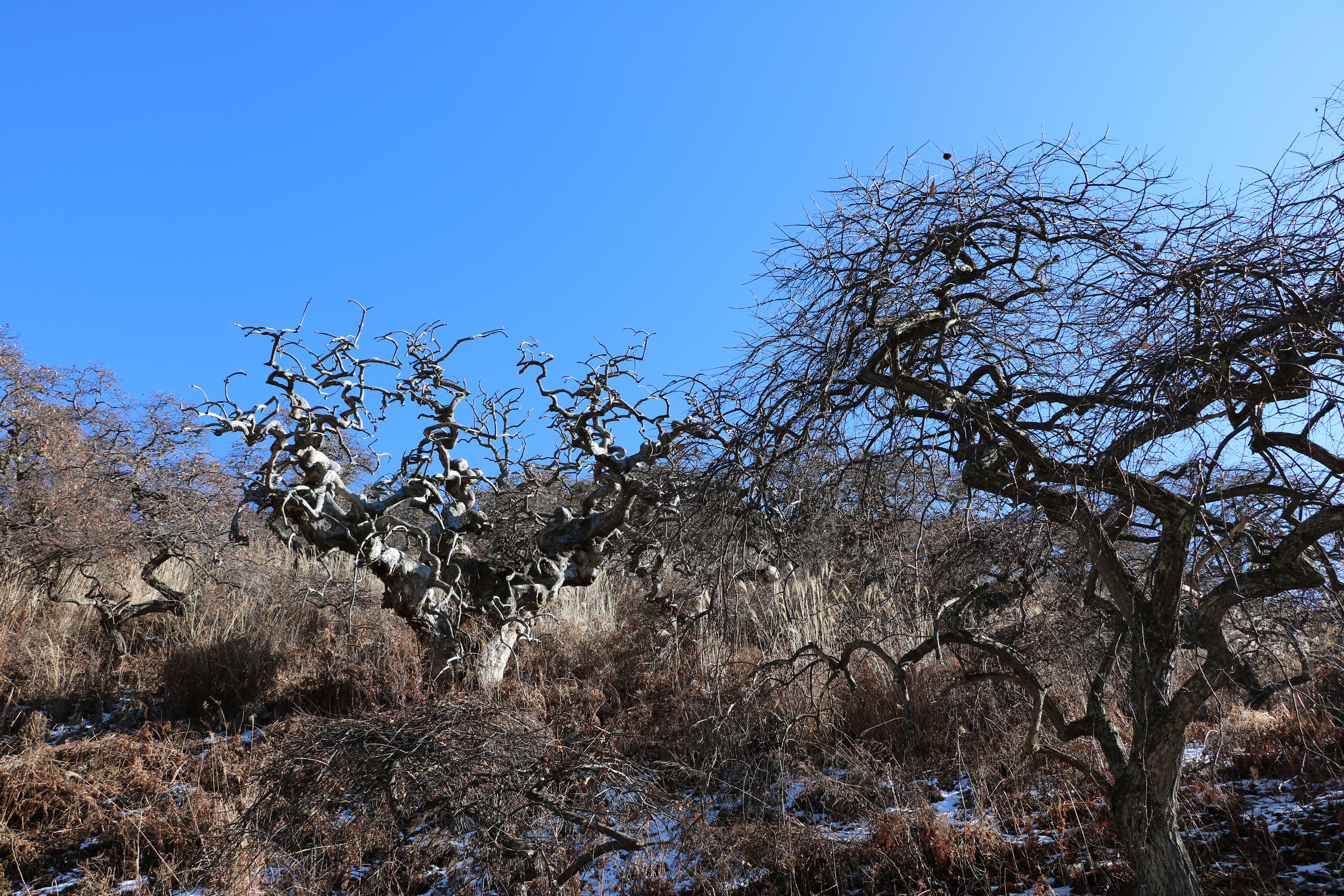 Weeping Type Japanese Chestnut Habitat in Ono District